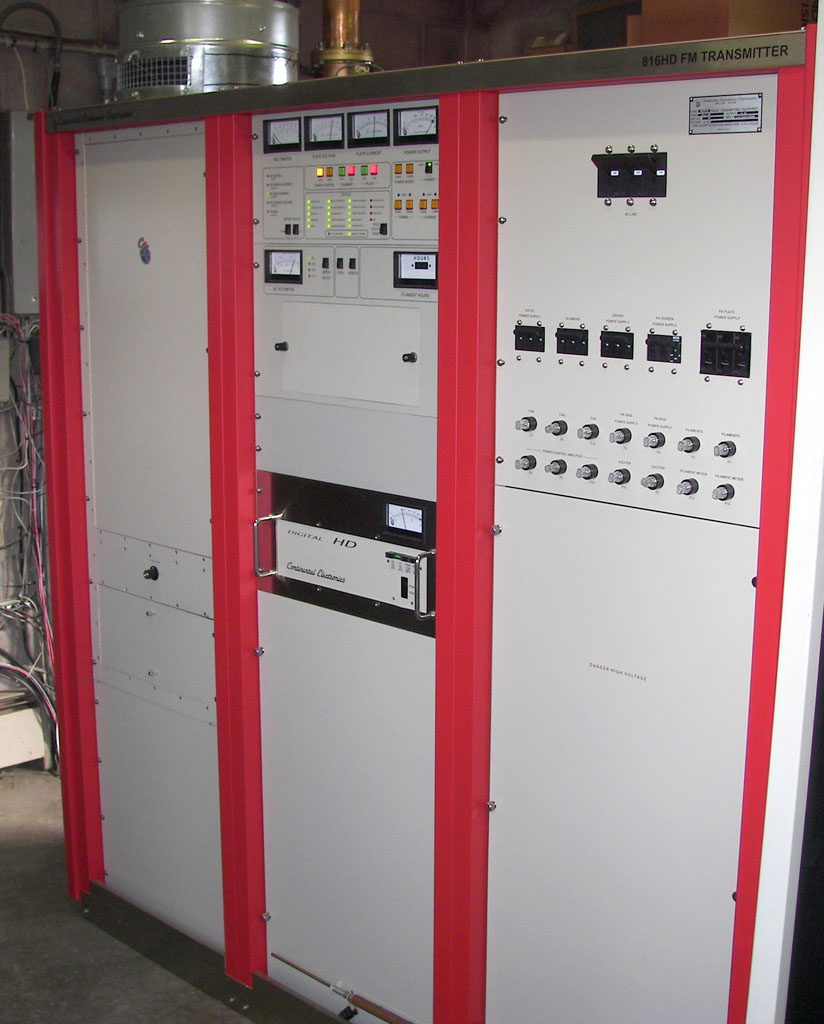 An American FM high power FM broadcast transmitter